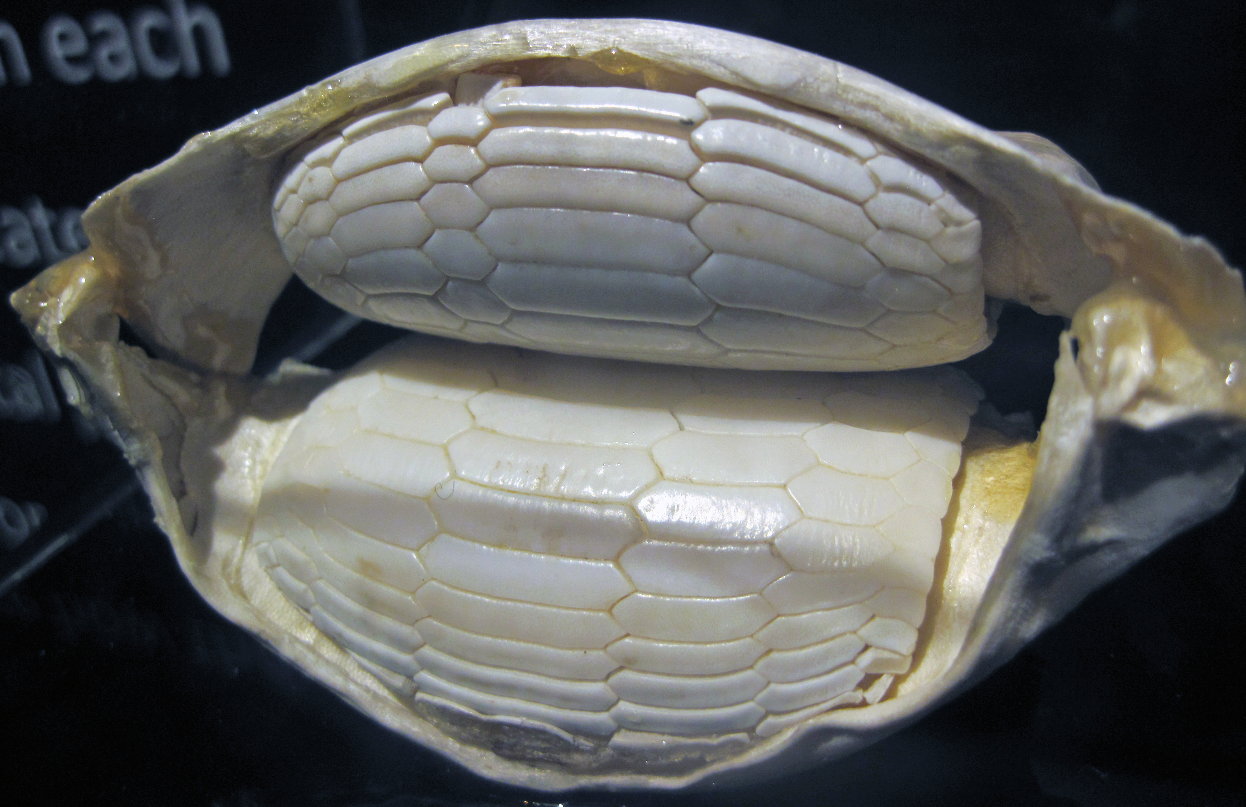 Rhinoptera bonasus (Mitchill, 1815) - cownose stingray teeth & skeletal mouthparts (public display, Greater Cleveland Aquarium, Cleveland, Ohio, USA). I've seen fossil stingray teeth several times, but never understood them until now. The aquarium display shown above is the skeletal mouth remains of a modern cownose stingray. Stingray teeth consist of interlocking bars that crush food. Classification: Animalia, Chordata, Vertebrata, Chondrichthyes, Elasmobranchii, Myliobatidae See info. at